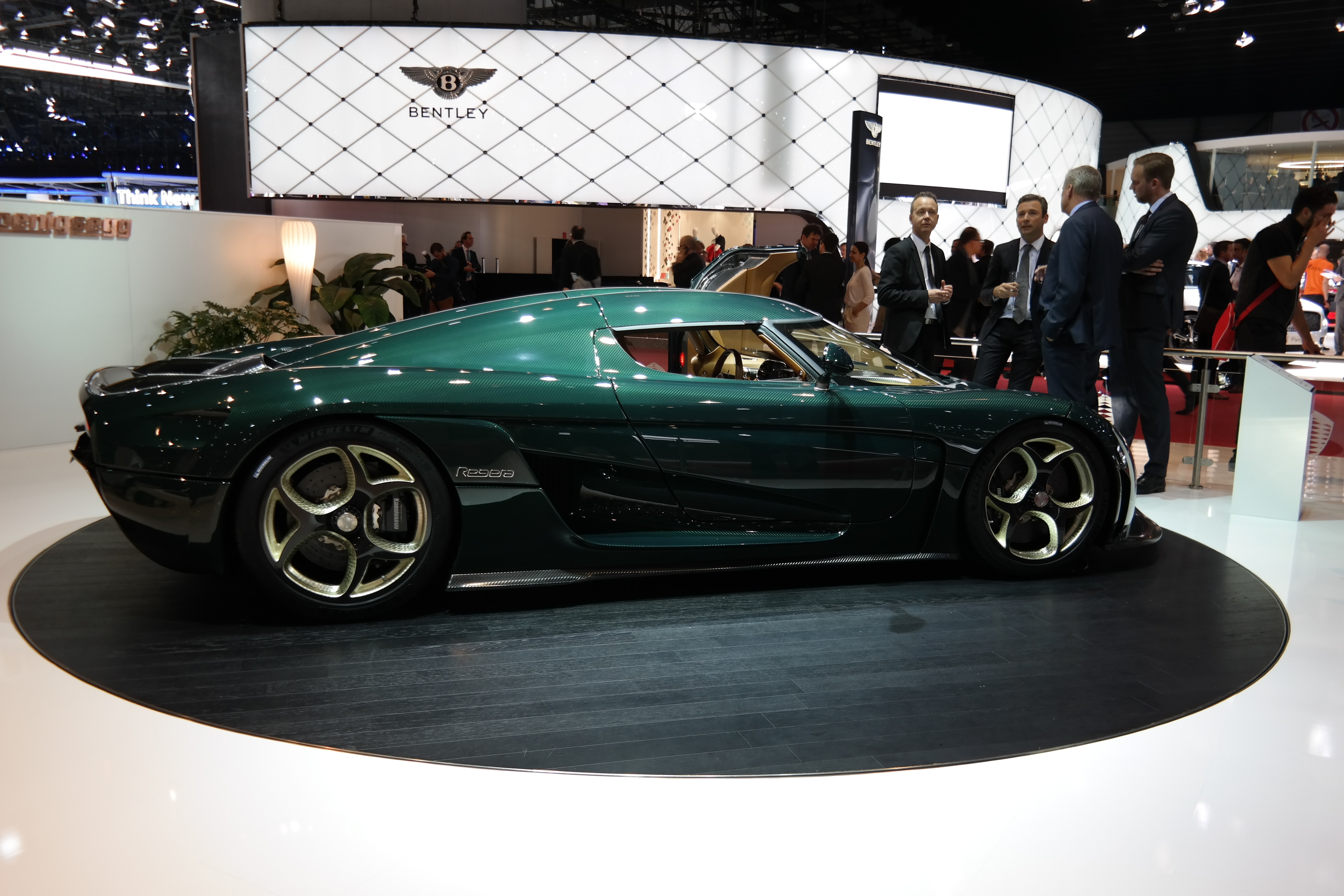 Geneva Motor Show 2017 (photo taken on the first press day)